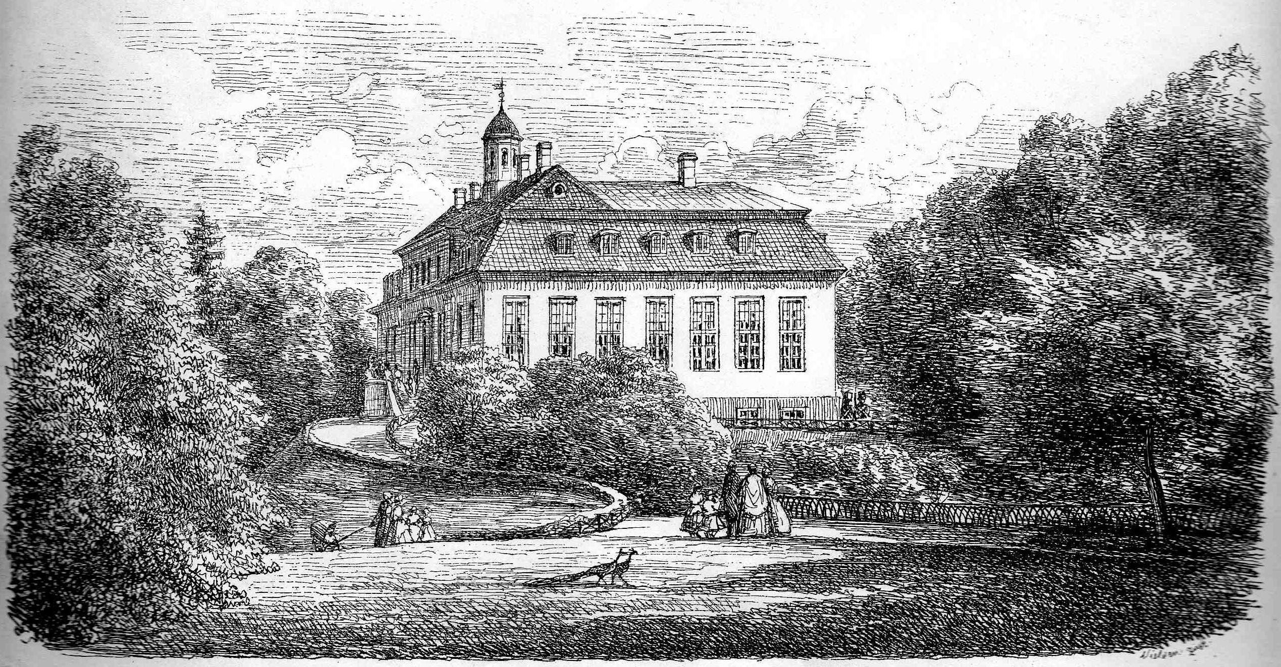 Scanned by myself from the old book in 2007. The book was graciously lent to me by Det Kongelige Garnisonsbibliotek.